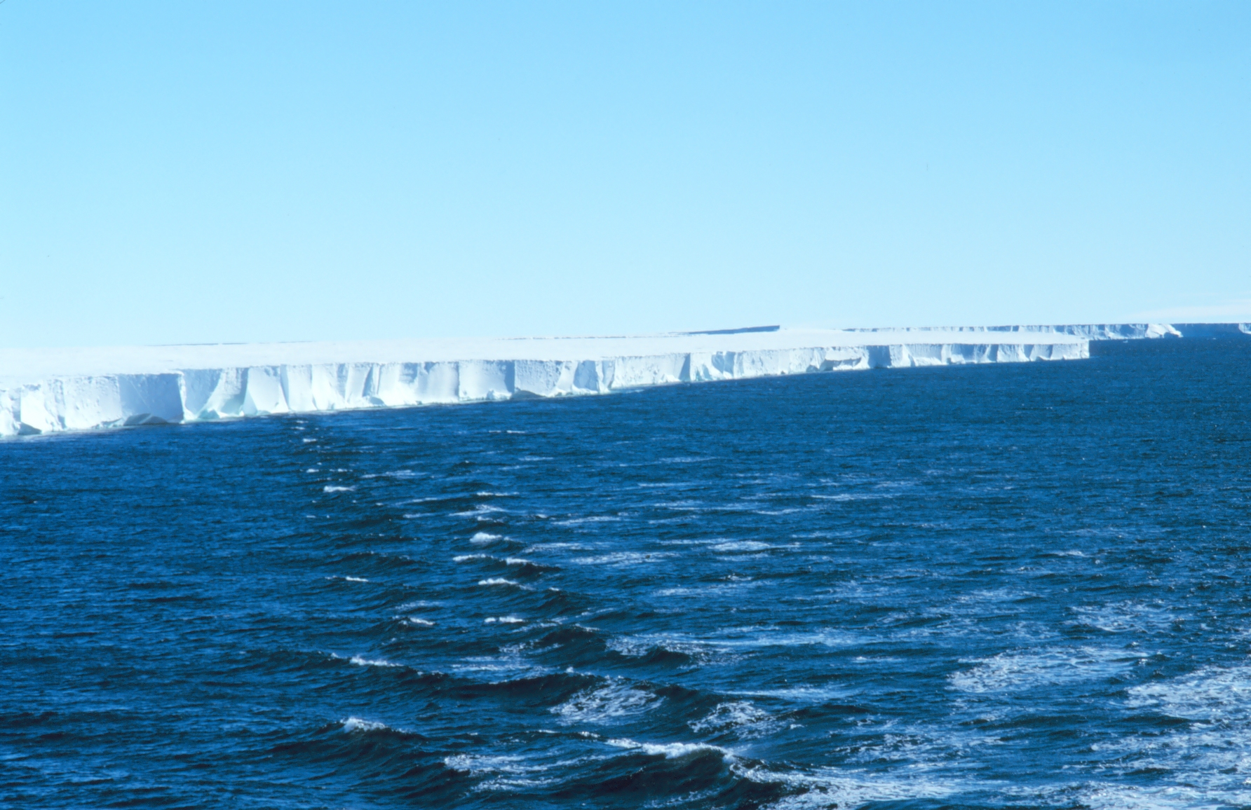 Ross Ice Shelf, 1997 The Ross Ice Shelf from the NATHANIEL B. PALMER Ross Sea, Antarctica